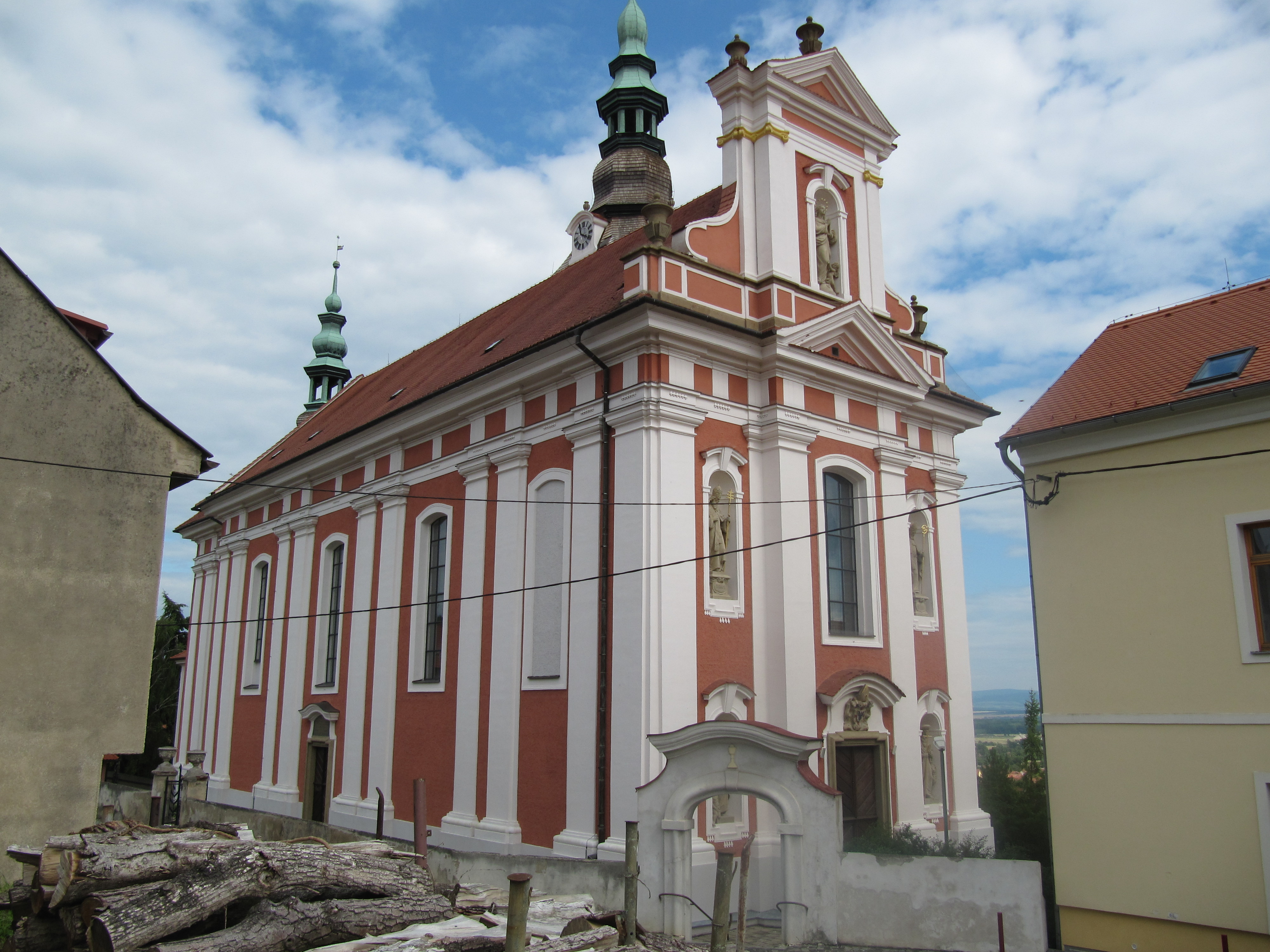 Polešovice in Uherské Hradiště District, Czech Republic. Church of St. Peter and Paul, the front side.